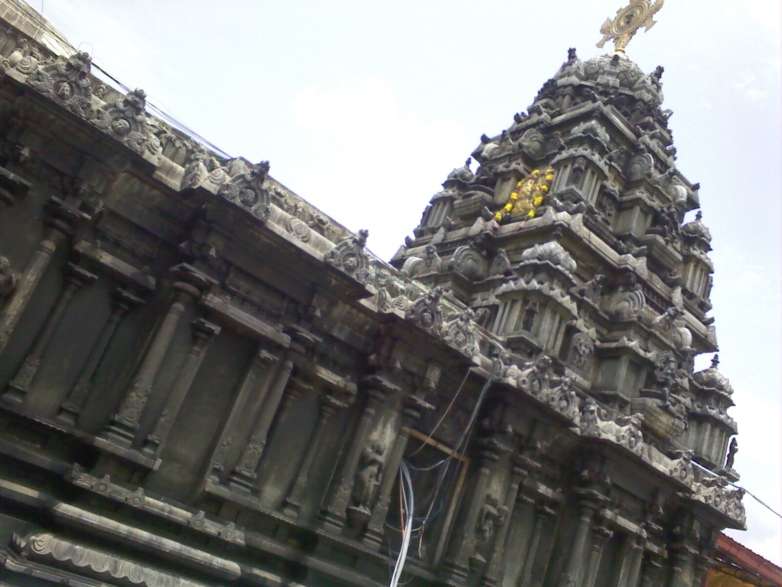 front view